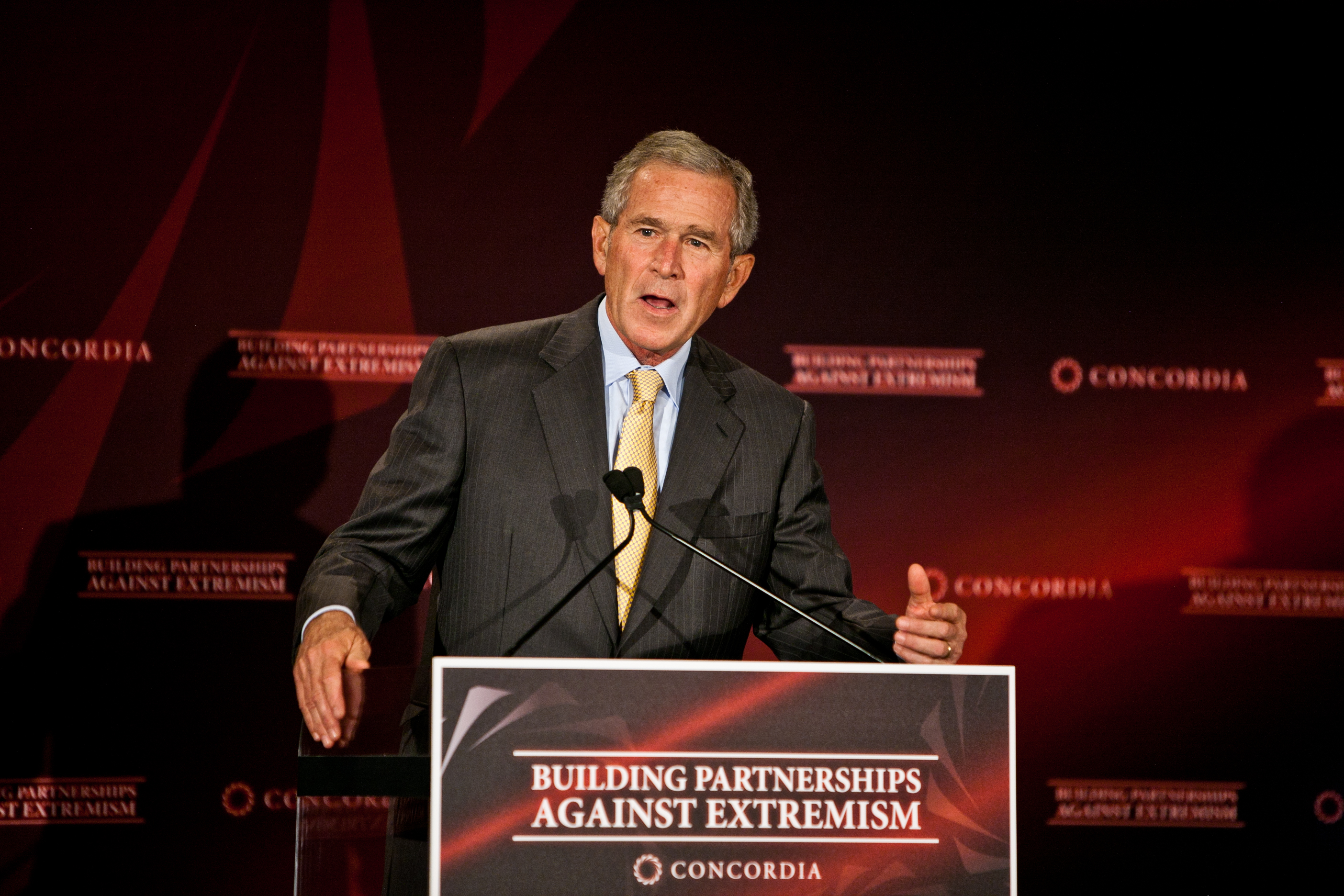 Keynote Speaker George W. Bush